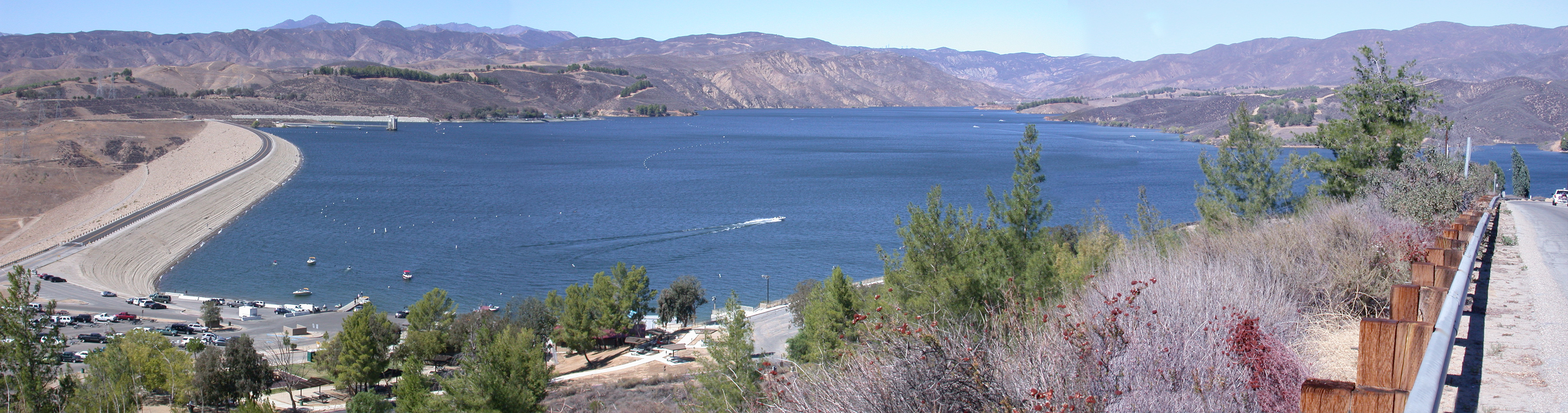 Photo of the Castaic Dam assembled from three views shot October 7, 2007, creating a panoramic scene by User:Jamesb01 (Nikon 995 and Photoshop).